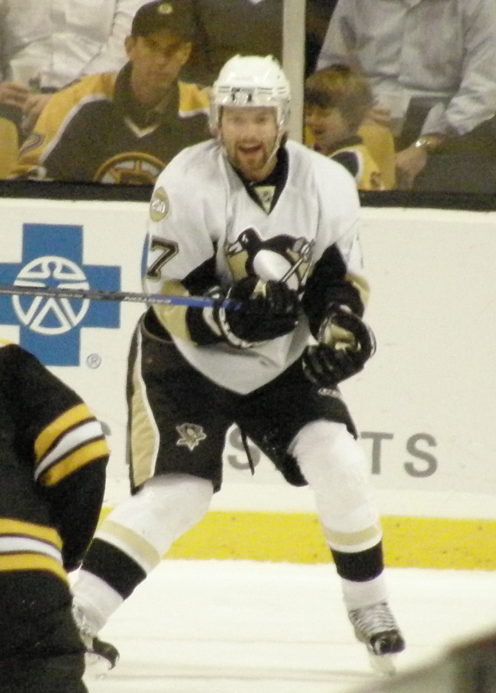 #17 Petr Sykora Czech ice hockey player (RW) of the Pittsburgh Penguins